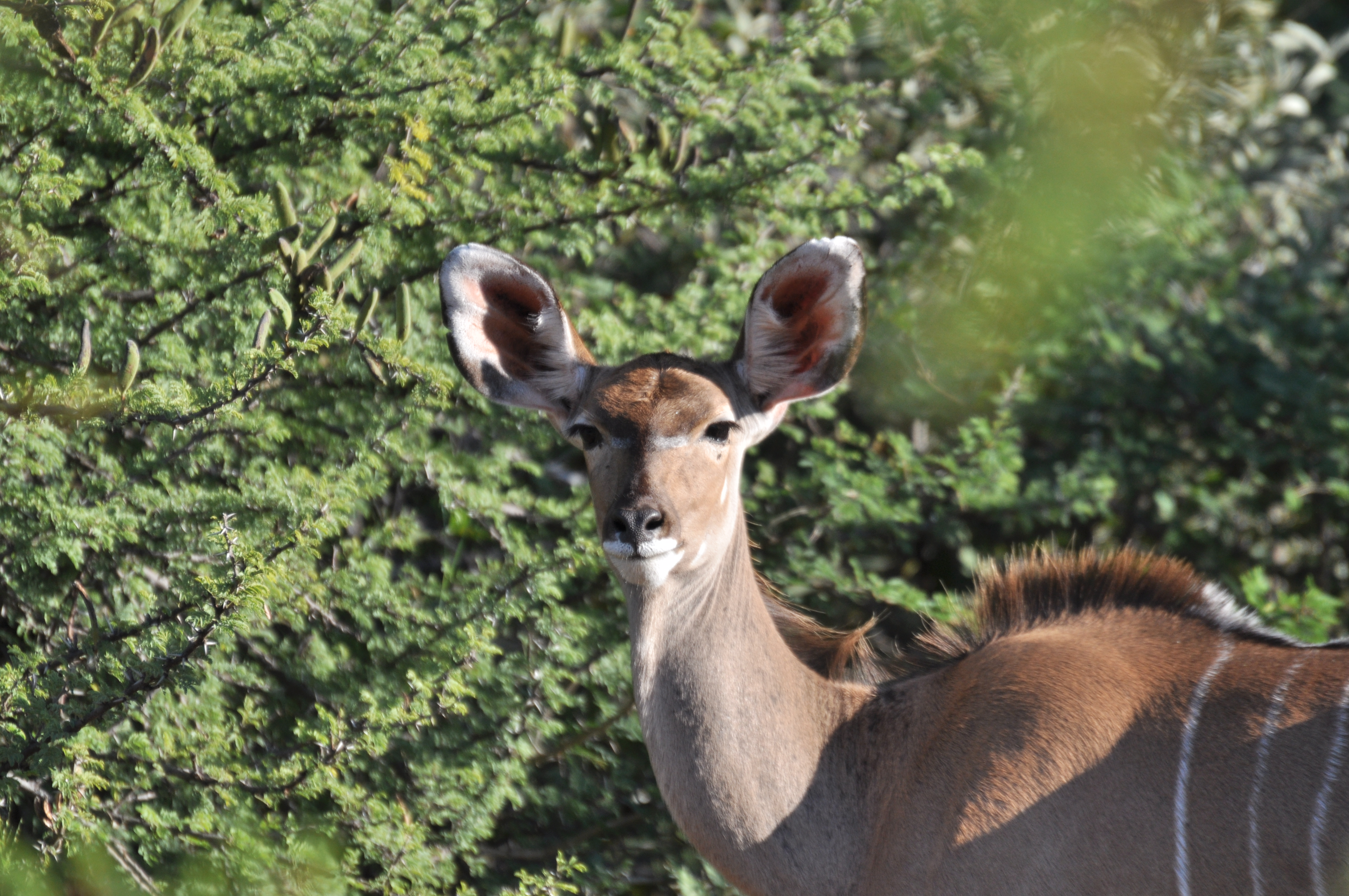 Close-up of a kudu in Namibia.